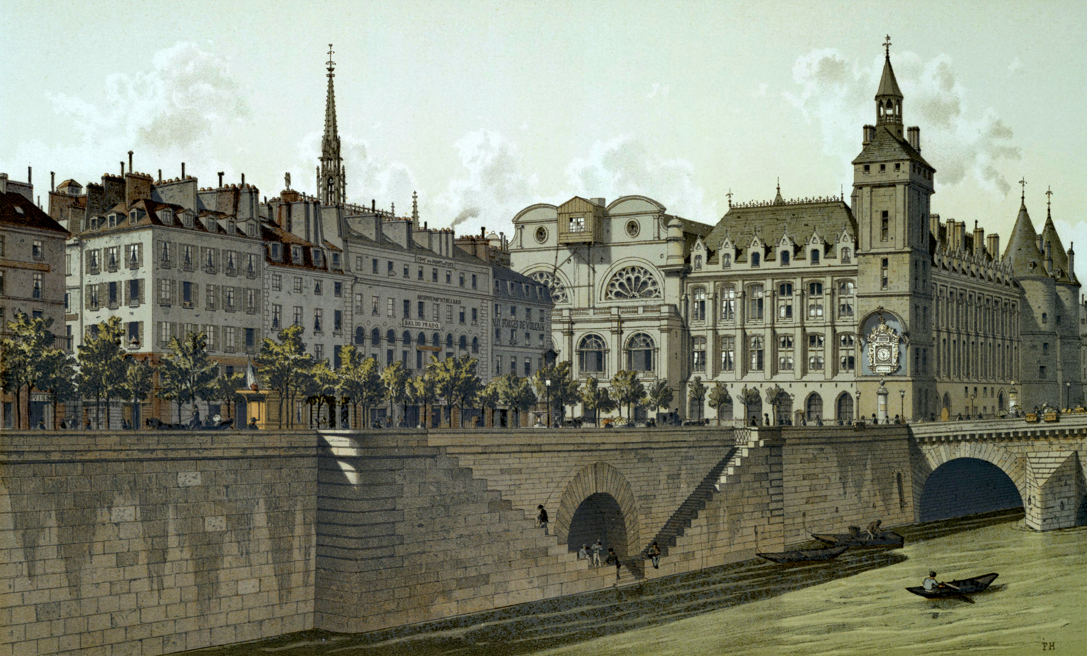 The Quai aux Fleurs, on the Ile de la Cité, runs from the Pont Saint-Louis to the the Pont d'Arcole. It was originally occupied by the oldest port in Paris, the Saint-Landry Port. The Quai aux Fleurs was built at the end of the 18th century, and it was raised to a higher level in 1804.